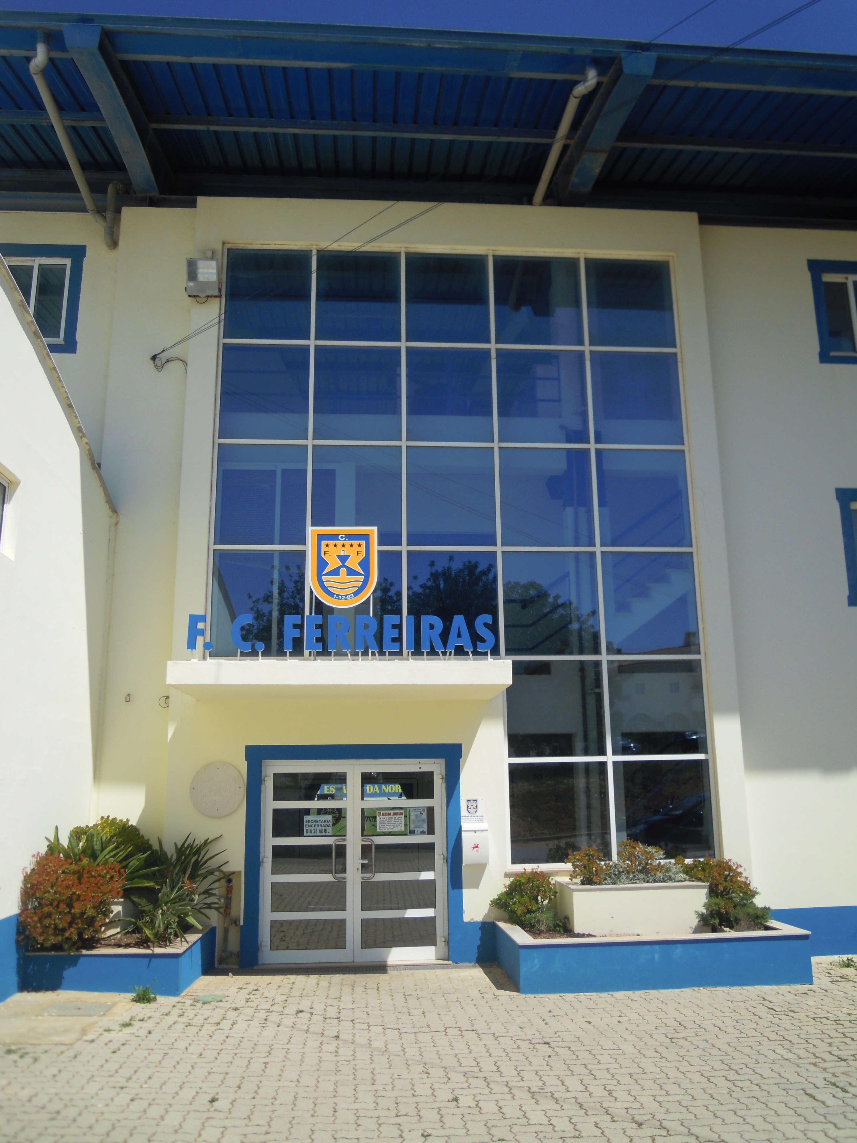 The main entrance to the Estádio da Nora the home stadium of Futebol Club Ferreiras in the town of Ferreiras, Albufeira, Algarve, Portugal